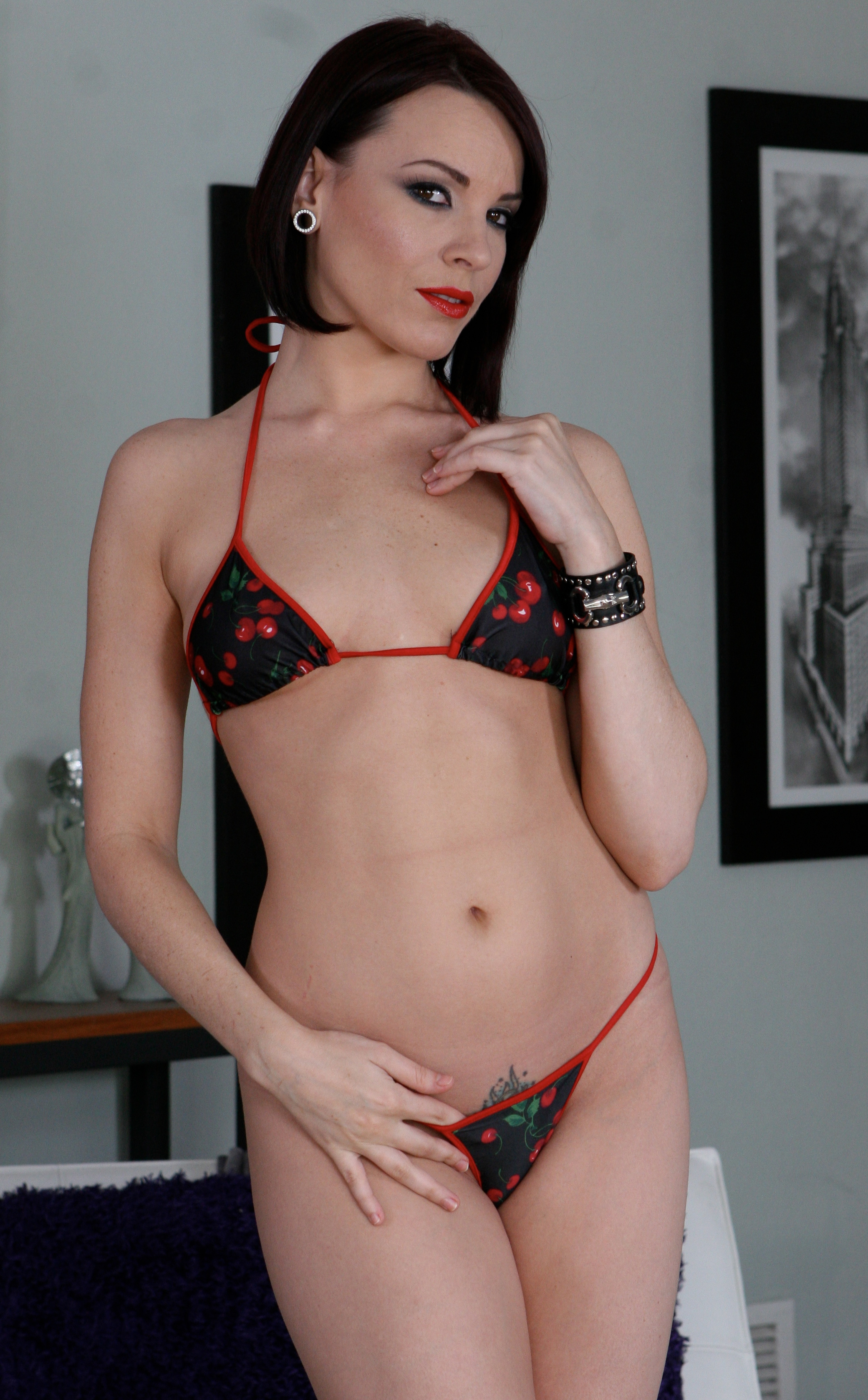 American pornographic actress Dana DeArmond, posing for the Internet Adult Film Database